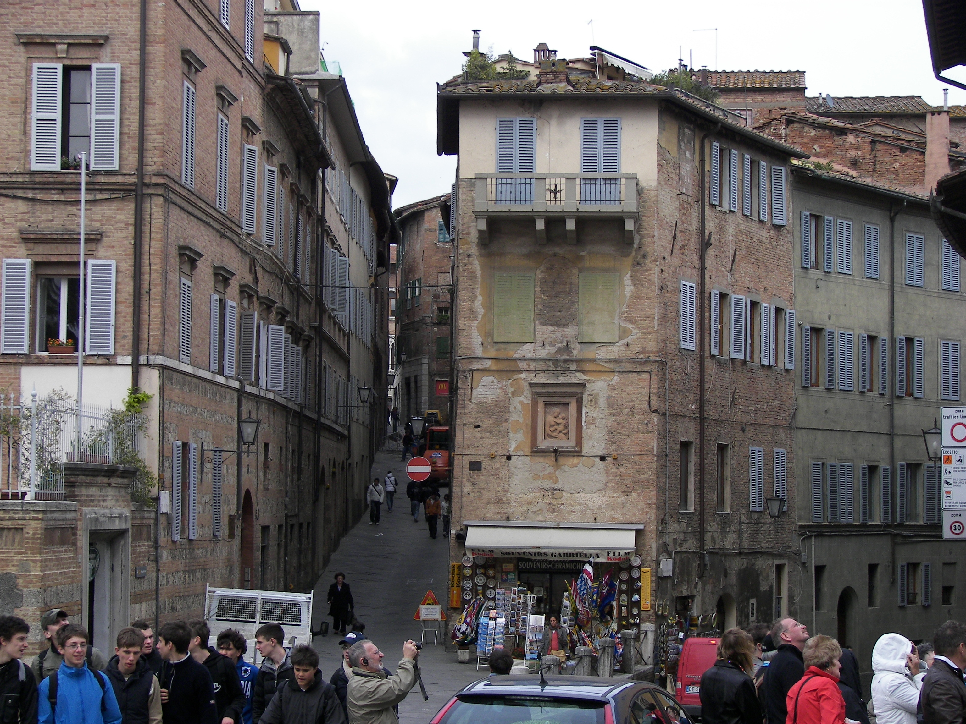 Siena, Italy near the Basilica of San Domenico with Via del Paradiso to the left and Via della Sapienza to the right.